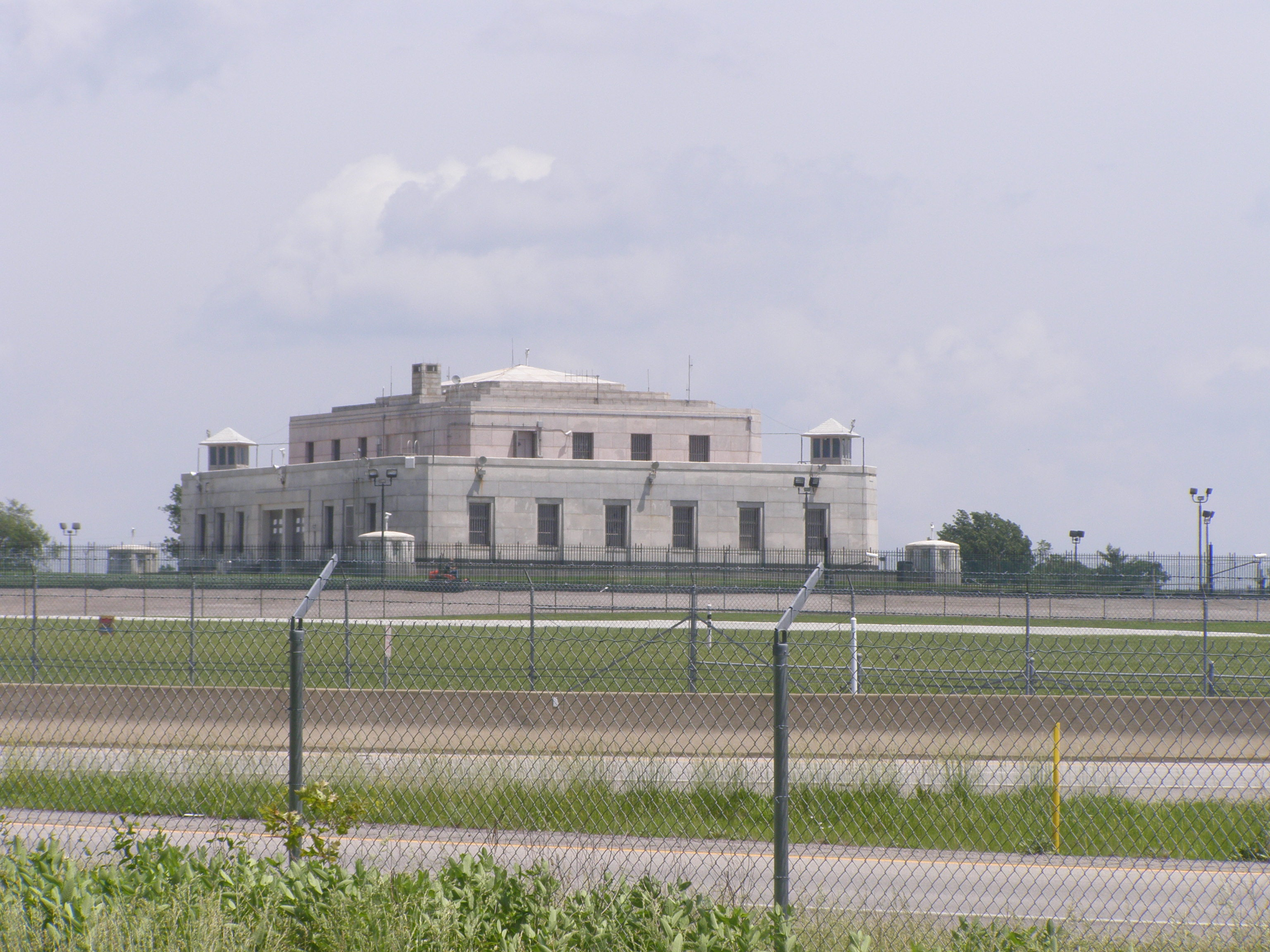 U.S. Bullion Depository at Fort Knox wayside on the Dixie Highway (U.S. 31W - U.S. 60).